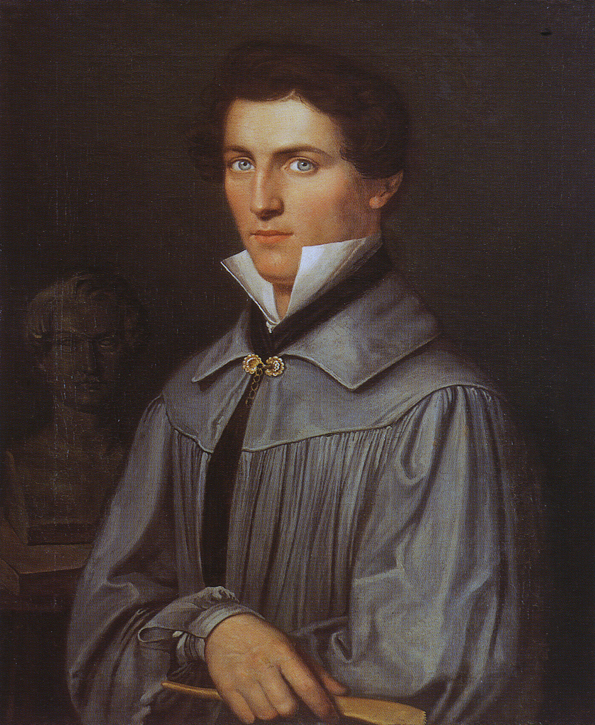 Portrait of the german sculptor Arnold Hermann Lossow (1805–1874)